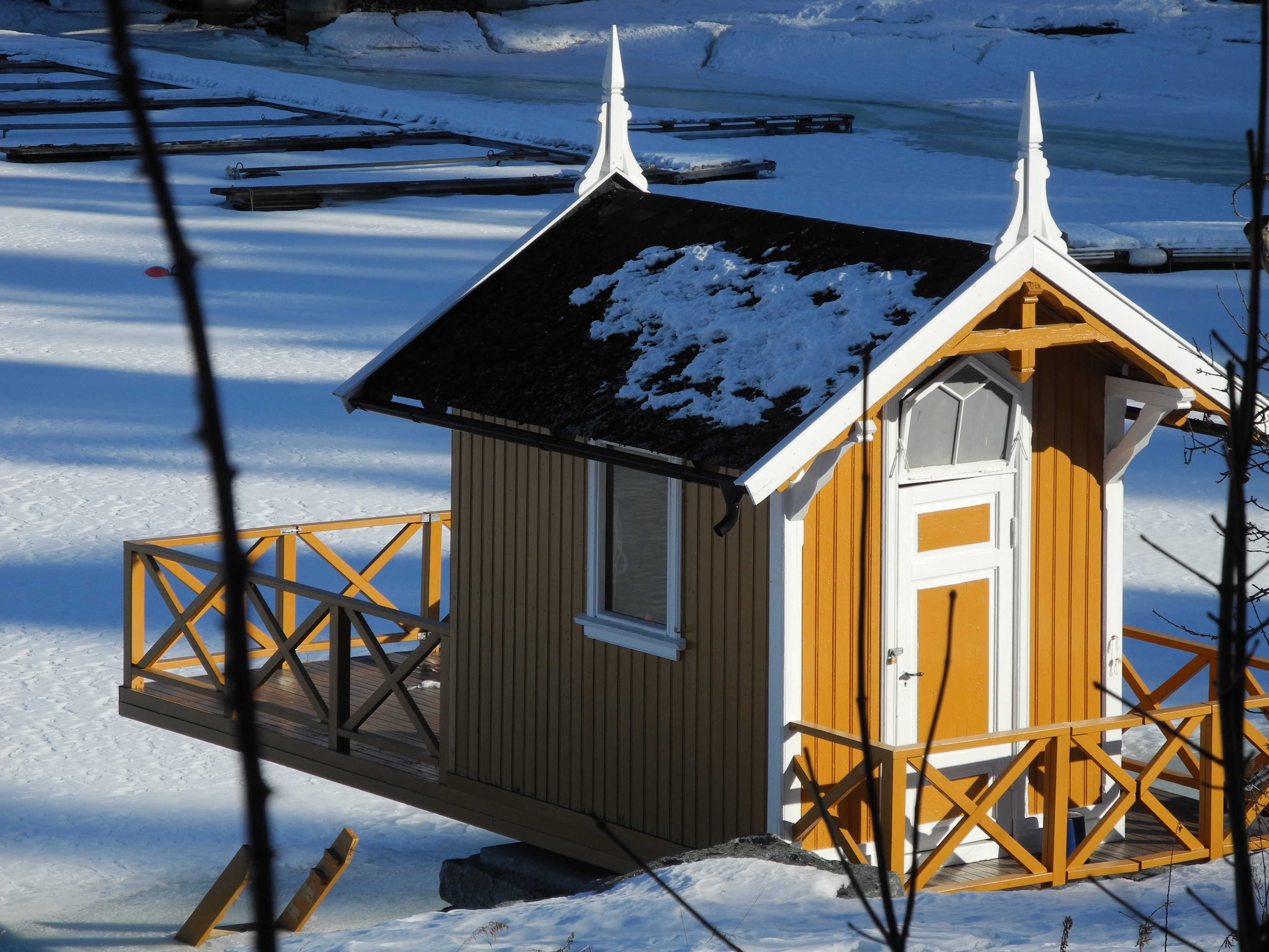 Bathing hut (listed), Fossilveien 2, Malmøya, Oslo, Norway